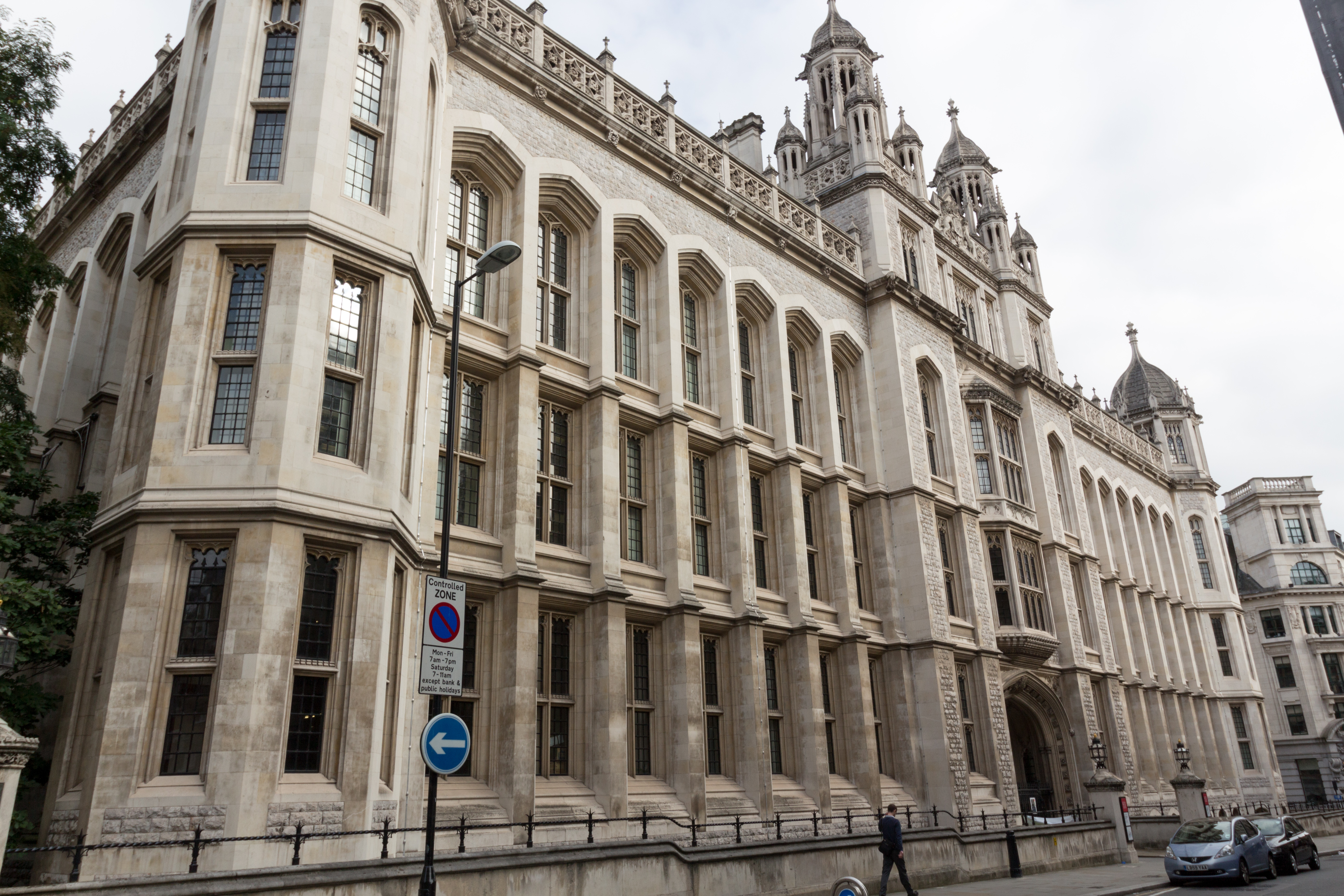 The Maughan Library viewed from Chancery Lane